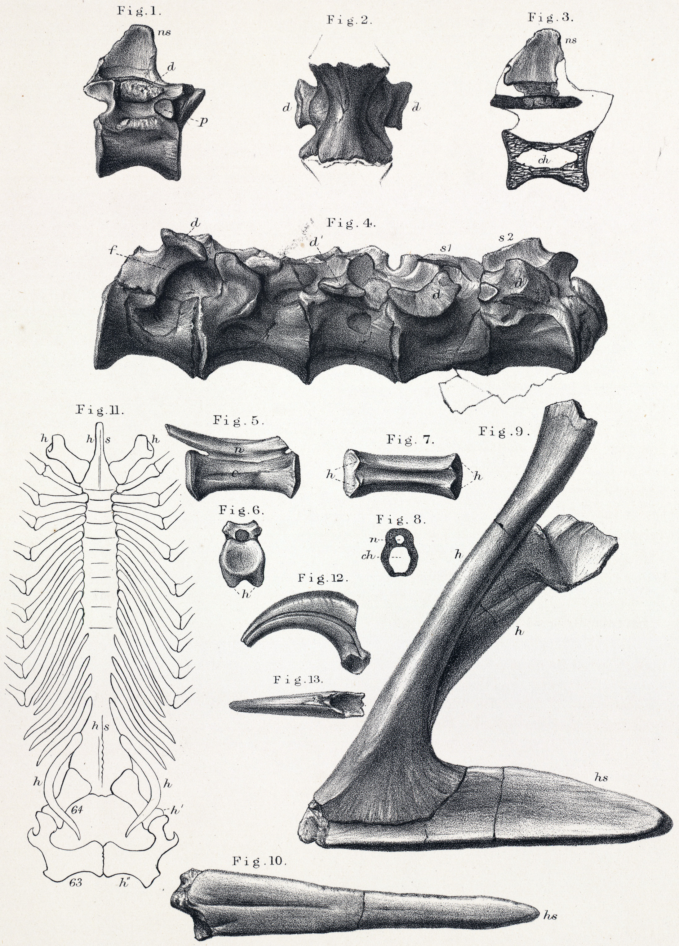 Poikilopleuron pusillus. Fig. 1. Side view of a dorsal vertebra. Fig. 2. Under view of a dorsal vertebra. Fig. 3. Vertical longitudinal section of the same. Fig. 4. Side view of lumbar and sacral vertebræ. Fig. 5. Side view of a caudal vertebra. Fig. 6. End view of the same. Fig. 7. Under view of the same. Fig. 8. Vertical transverse section of the middle of the same. Fig. 9. Abdominal hæmapophysis and hæmal spine. Fig. 10. Under surface of abdominal hæmal spine. Fig. 11. Reduced view, in outline, of neural or upper surface of the series of abdominal hæmapophyses and spines of a Crocodilus biporcatus. Fig. 12. Side view of ungual phalanx. Fig. 13. Upper view of the same. The fossils are of the natural size, are from the Wealden of the Isle of Wight, and are in the Museum of the Rev. W. Fox, M.A., F.G.S.